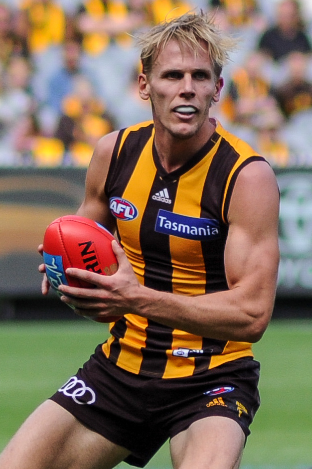 Will Langford during the AFL round two match between Hawthorn and Adelaide on 1 April 2017 at the Melbourne Cricket Ground in Melbourne, Victoria.